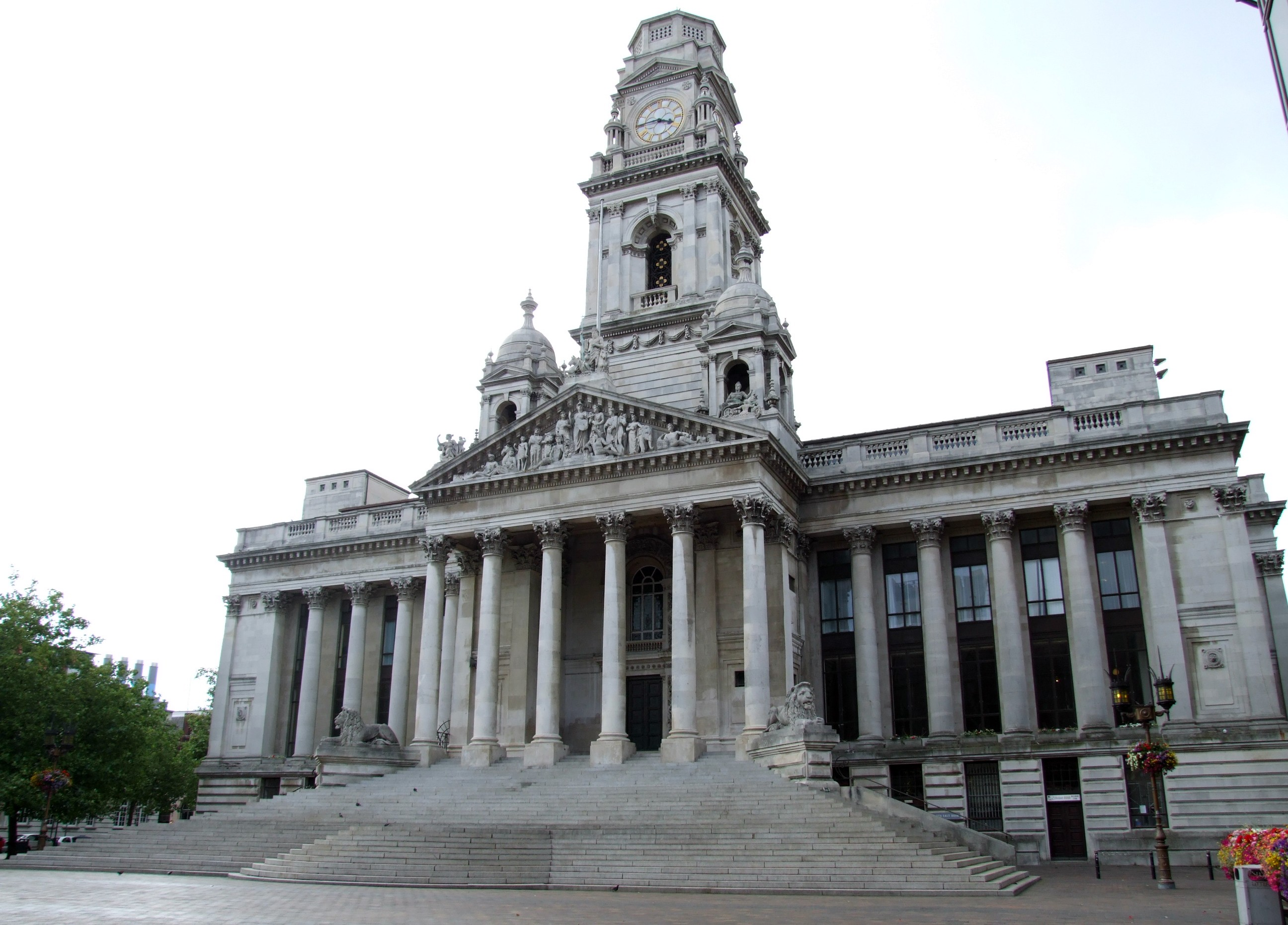 Guildhall, Portsmouth, England, United-Kingdom